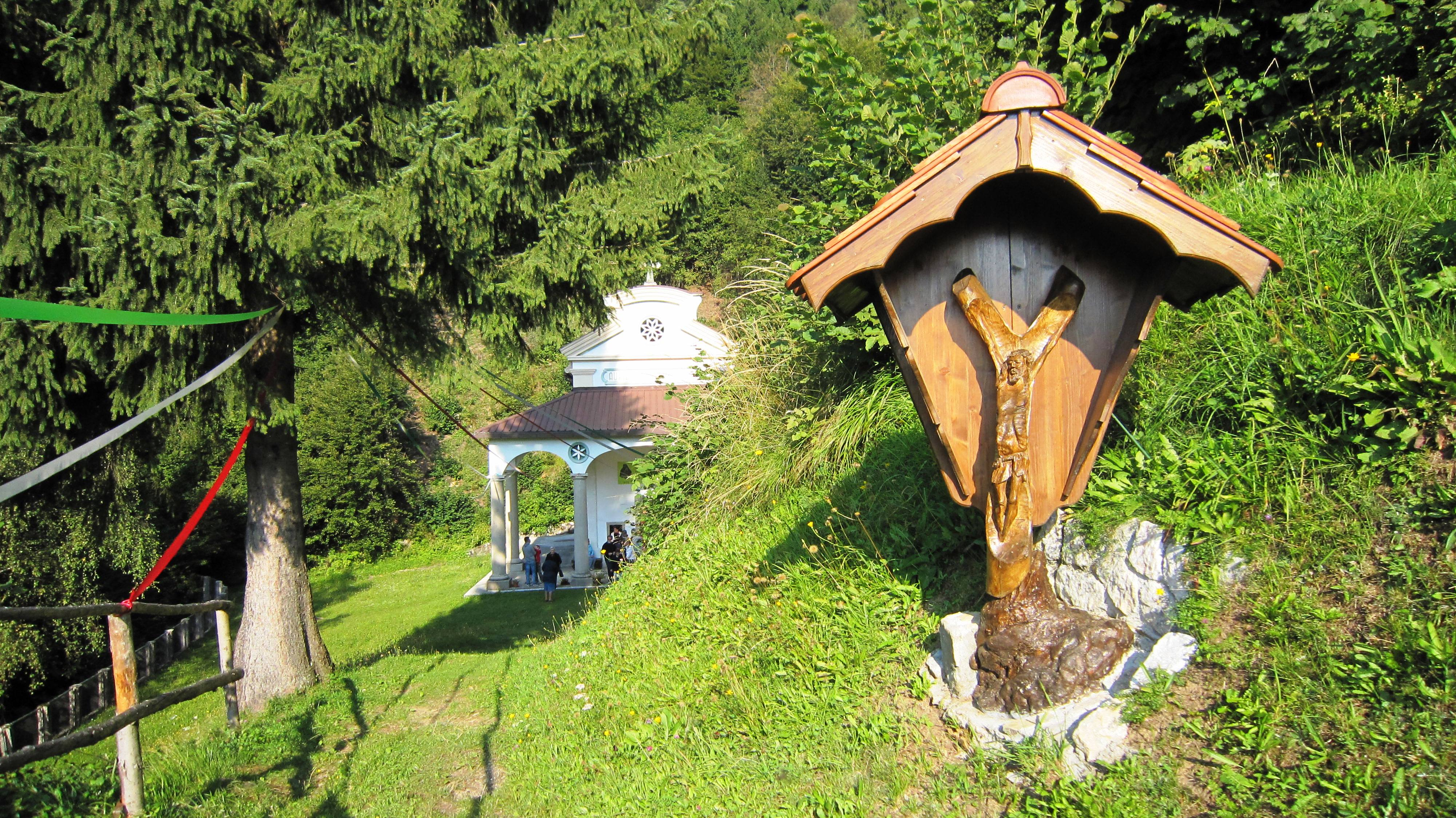 Paularo_madonna_del_sasso_prossimità chiesa